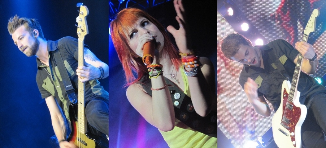 Jeremy Davis Paramore 8-16-2010